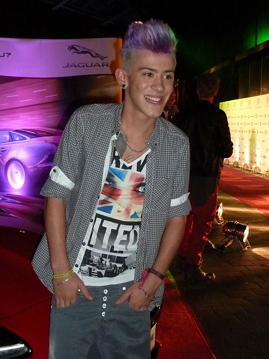 Daniele Negroni at "Music meets Media" in 2013